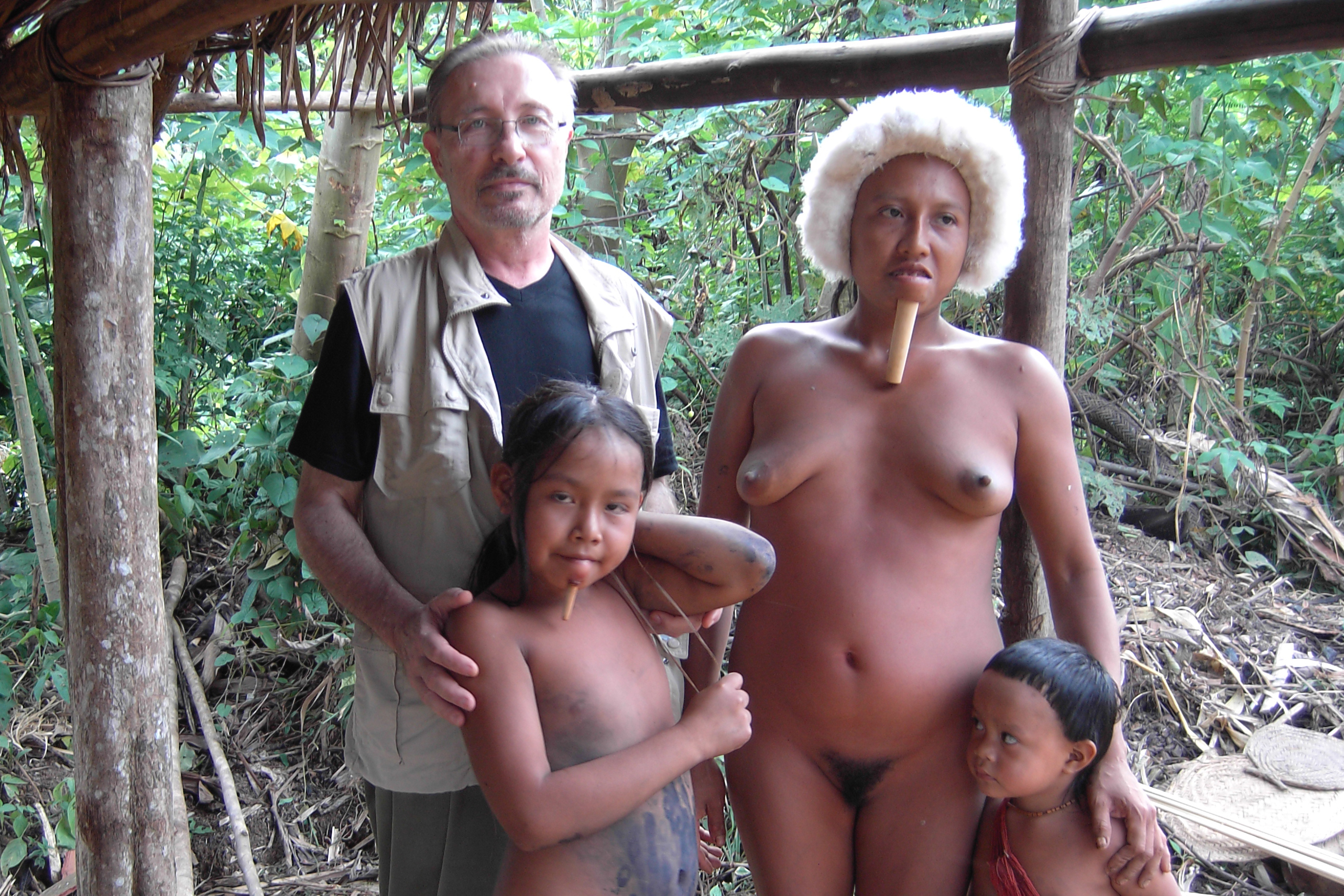 Albert April in the Amazon, with a zo'è family